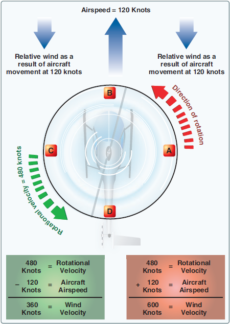 Difference of blade airspeed Caption: Airflow in forward flight